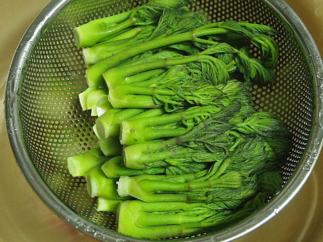 Blanched dureup